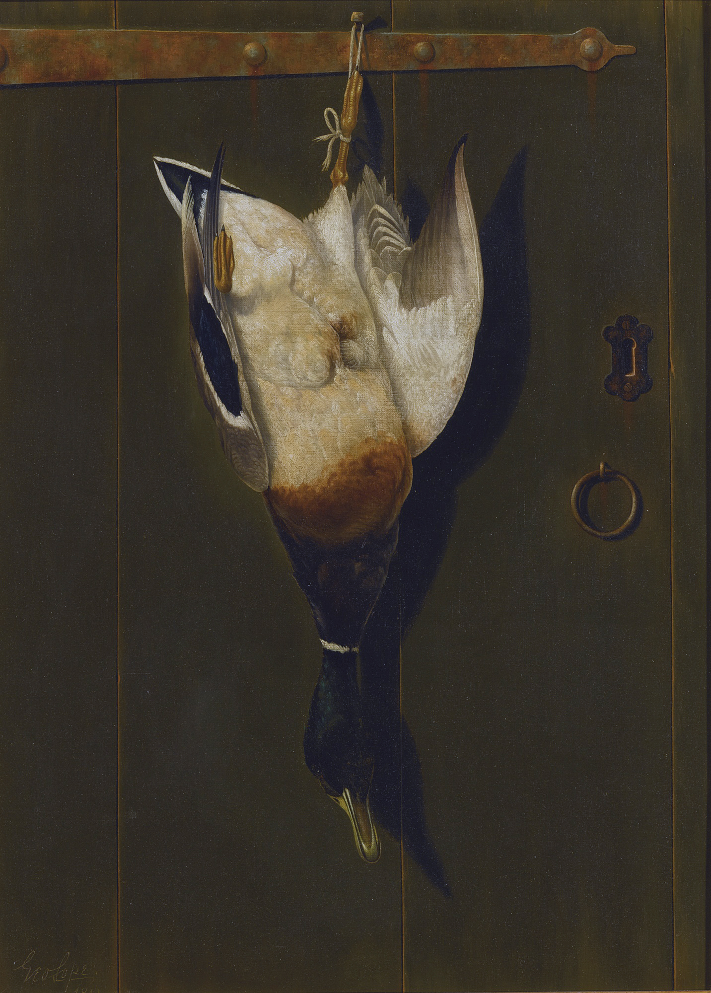 Mallard, after the hunt oil on canvas 51.4 by 41.9 cm signed b.l.: Geo Cope / 1910